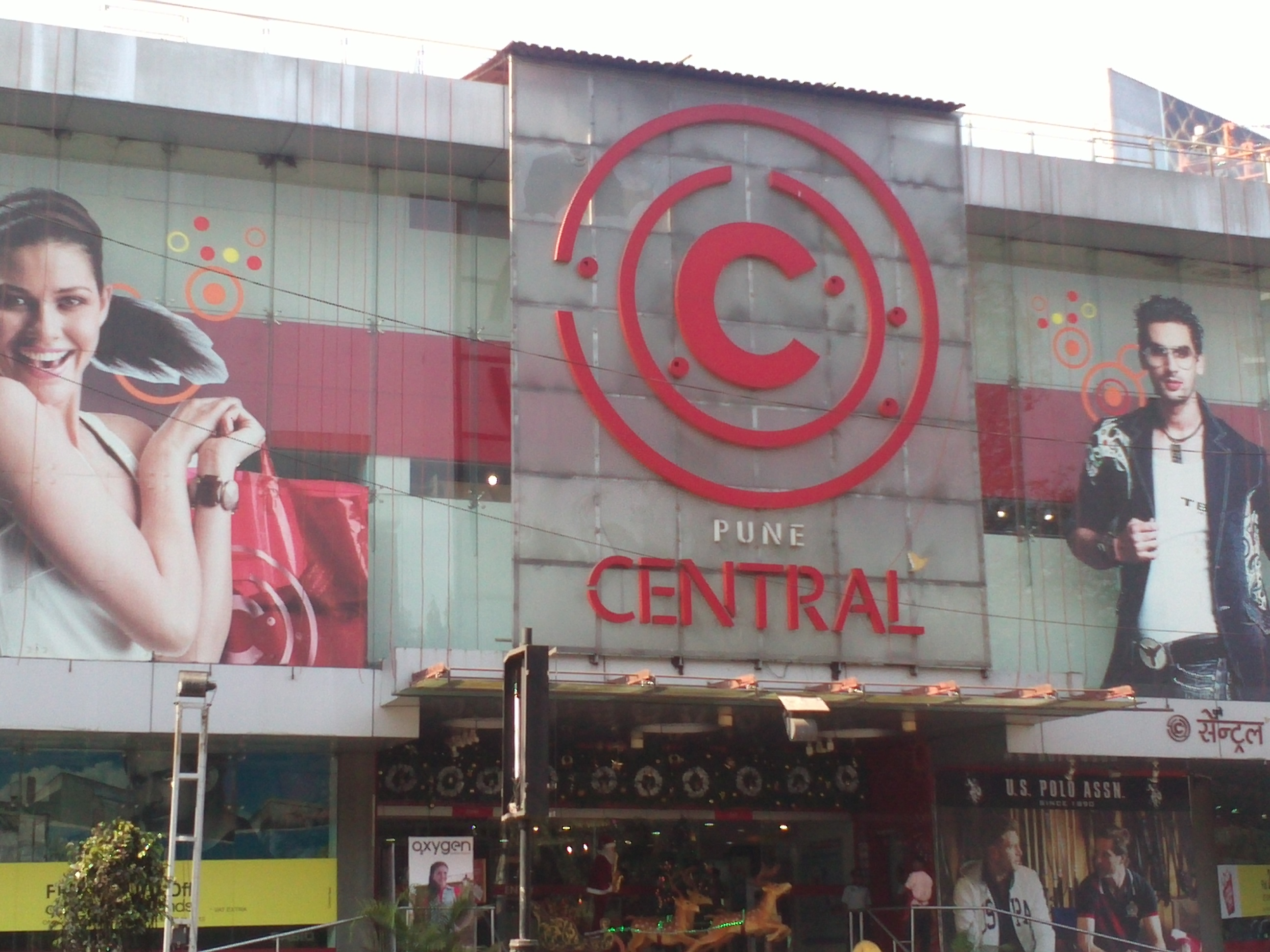 This is the Pune Central Mall located at Bund Garden in Pune.